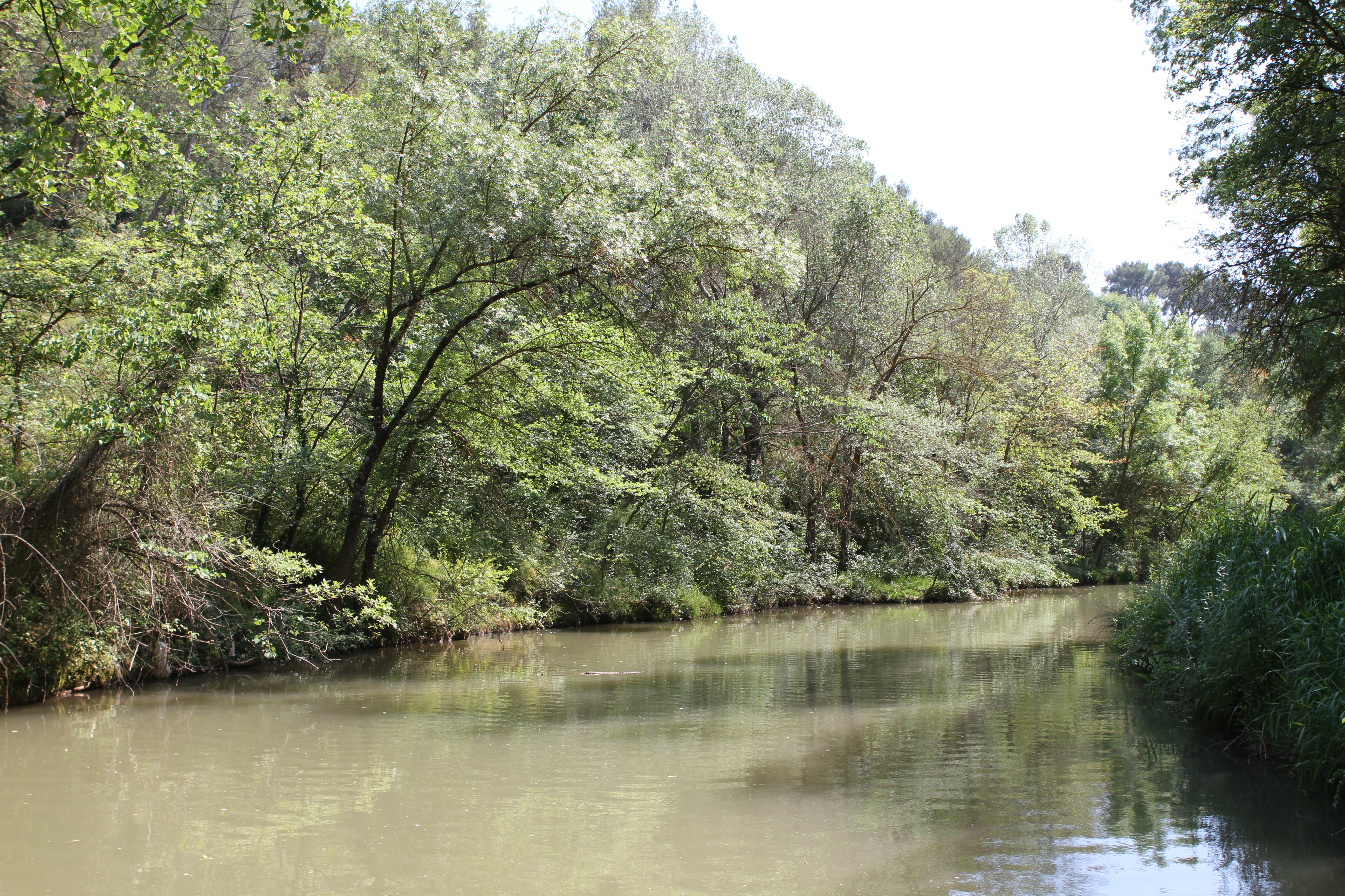 The Arc and its surroundings, near Aix-en-Provence (Bouches-du-Rhône, France)